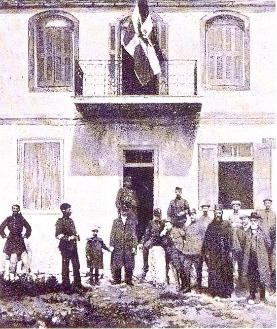 Headquarters of the Provisional Government of Northern Epirus in Southern Albanian coastal city of Sarande (Agioi Saranda). picture by French Magazine: L'Illustration. Issue: April 1914.